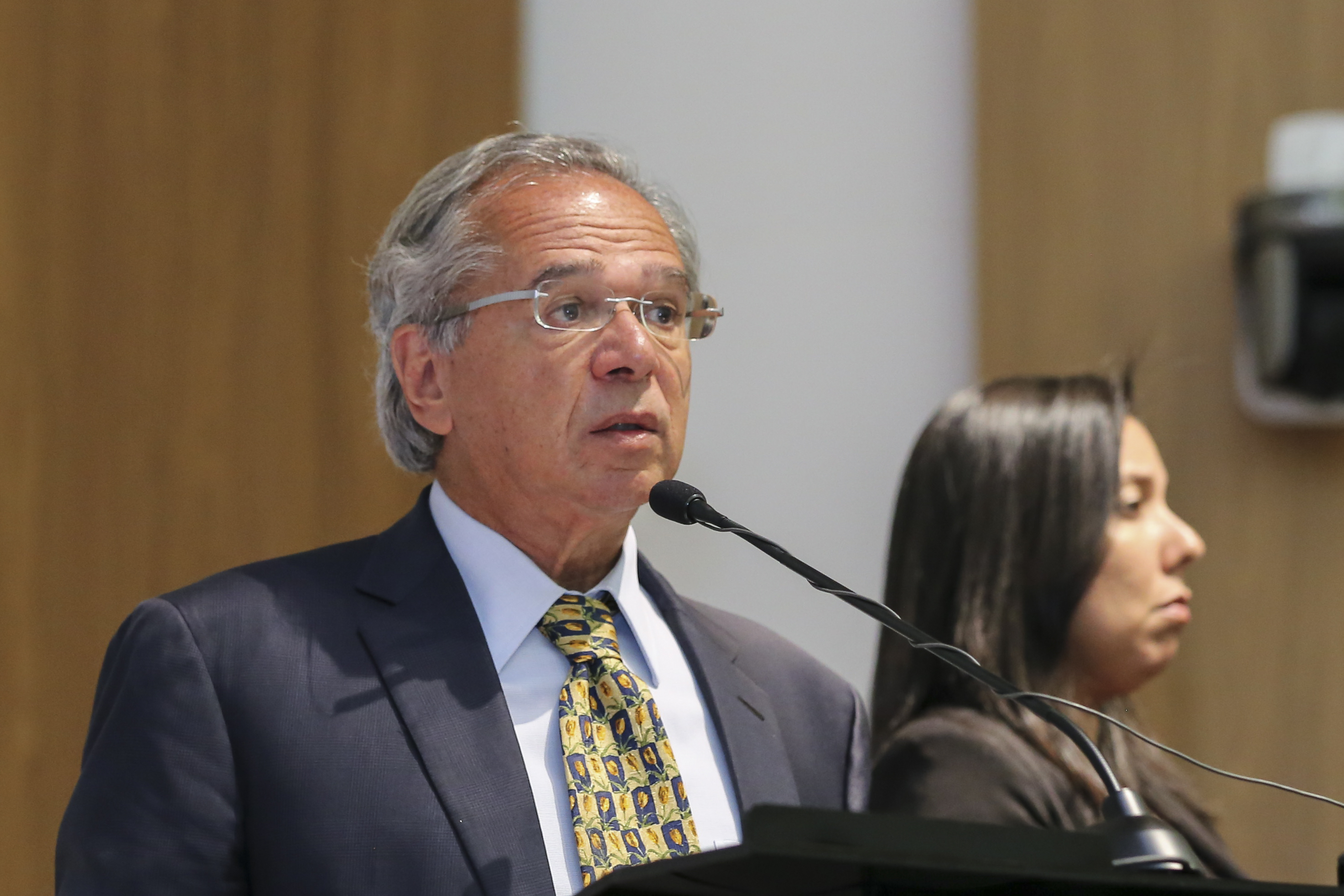 Washington Costa/ME